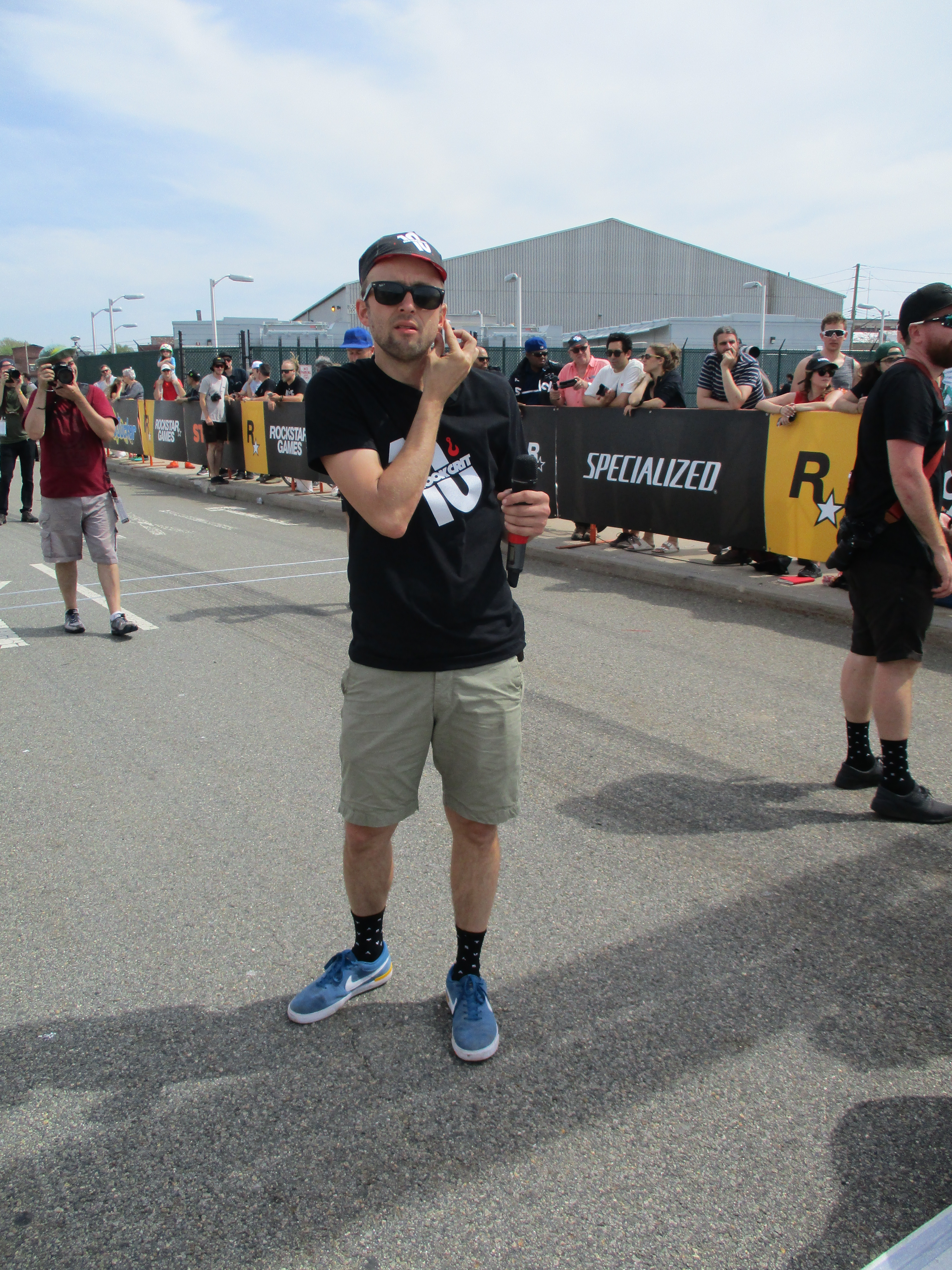 David Trimble working at Red Hook Crit Brooklyn 2017